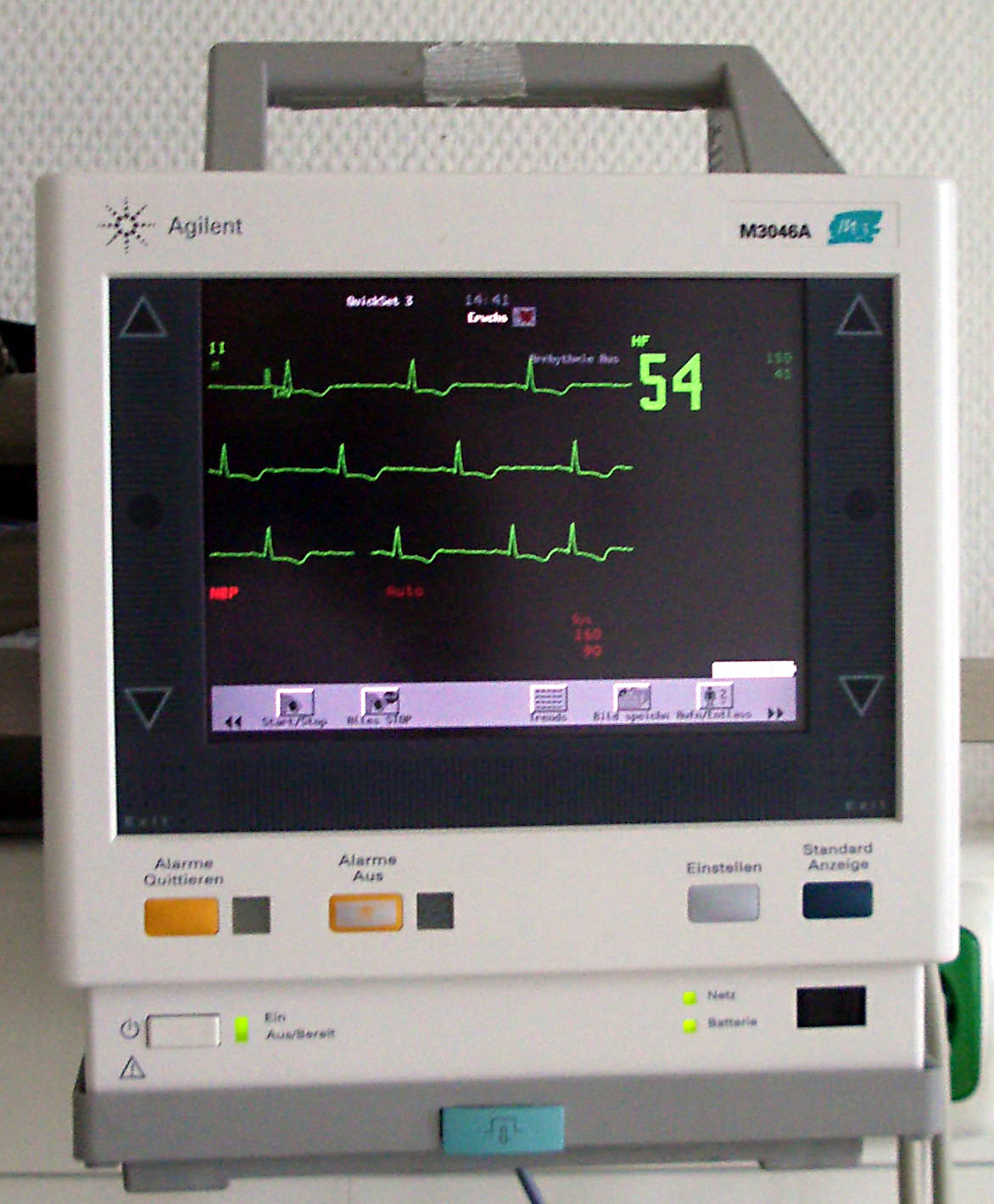 medical monitor Agilent M3046A